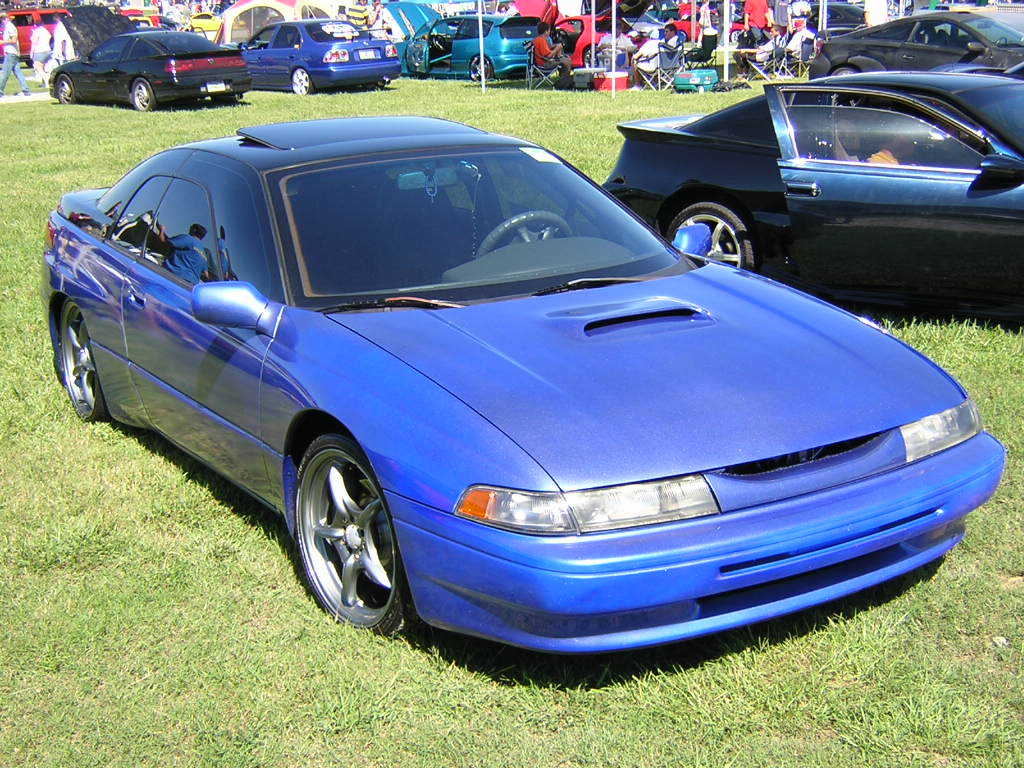 A lightly modified Subaru SVX